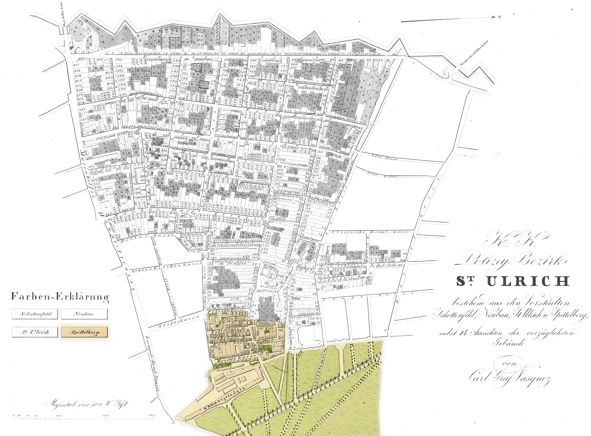 Map of Vienna / Spittelberg, approx. 1830